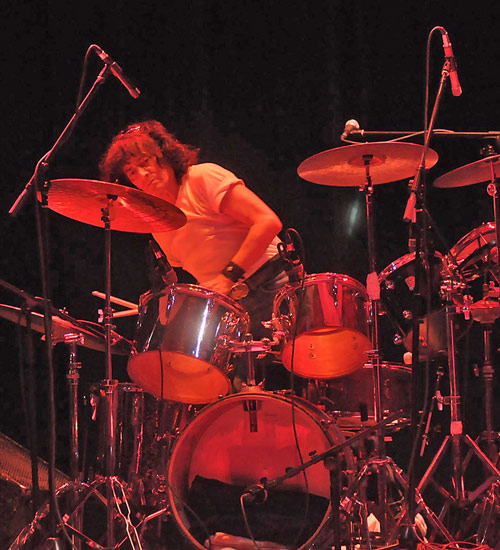 Ruben Basoalto, Baterista fundador de Vox Dei